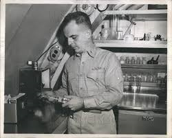 Lieutenant Commander John Henry Ebersole, M.D., Medical Corps, US Navy, using methods to analyze radioactive isotopes, determines source of radiation in the nucleonics laboratory aboard USS Seawolf (SSN-575). Ebersole, stationed aboard USS Seawolf (SSN-575) was responsible for the radiation hygiene and safety of its officers and crew. After receiving special training in radiation medicine at Duke University and Oak Ridge, Tennessee, Dr. Ebersole was assigned to the U.S. Atomic Energy Commission's National Reactor Testing Station at Arco, Idaho, where he conceived and formulated the Navy's first radiation hygiene program for a nuclear powered vessel. Ebersole was the first officer to serve aboard 2 nuclear submarines.